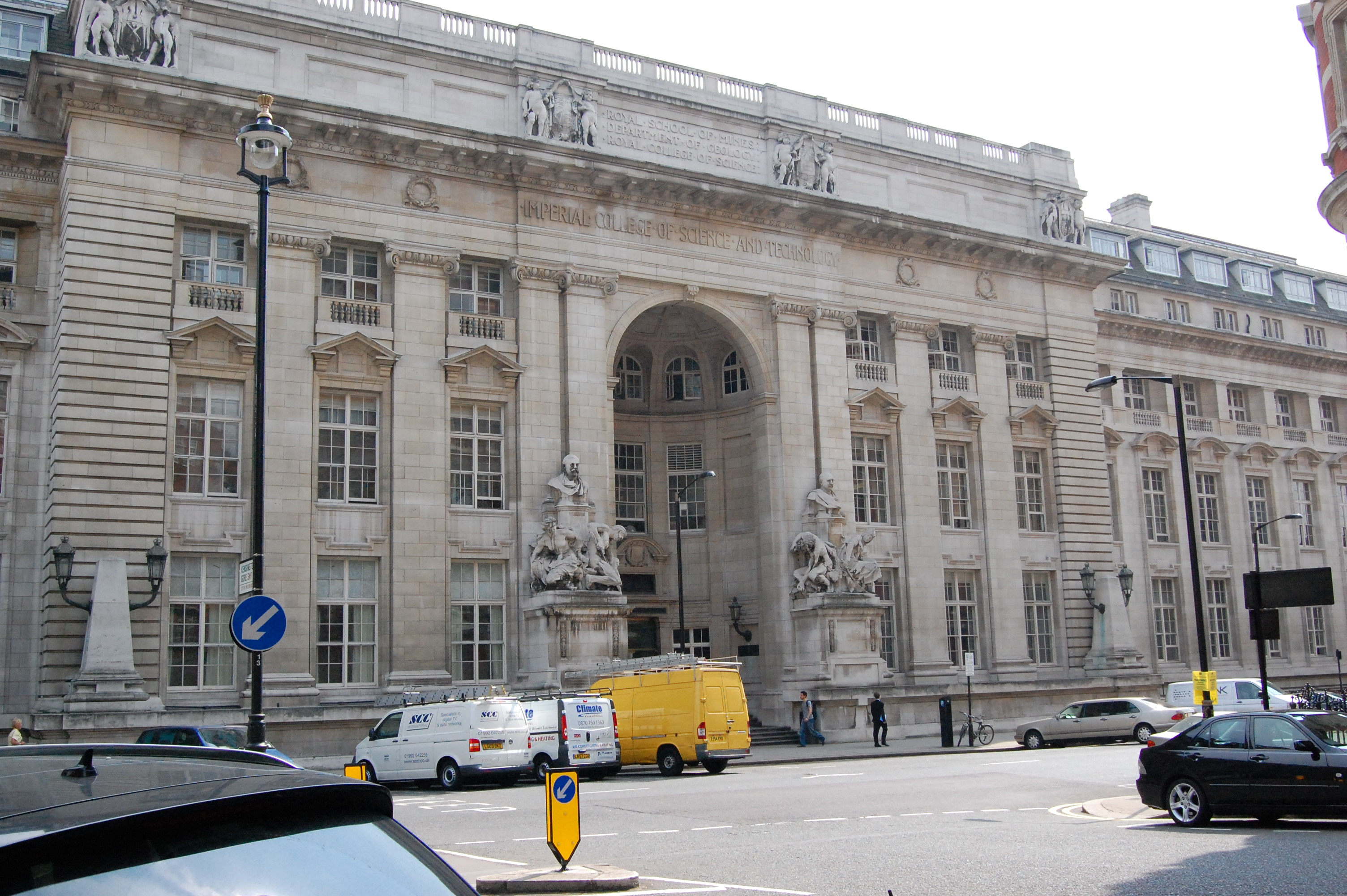 Imperial College of Science and Technology; Royal School of Mines Entrance, Prince Consort Road, London, England